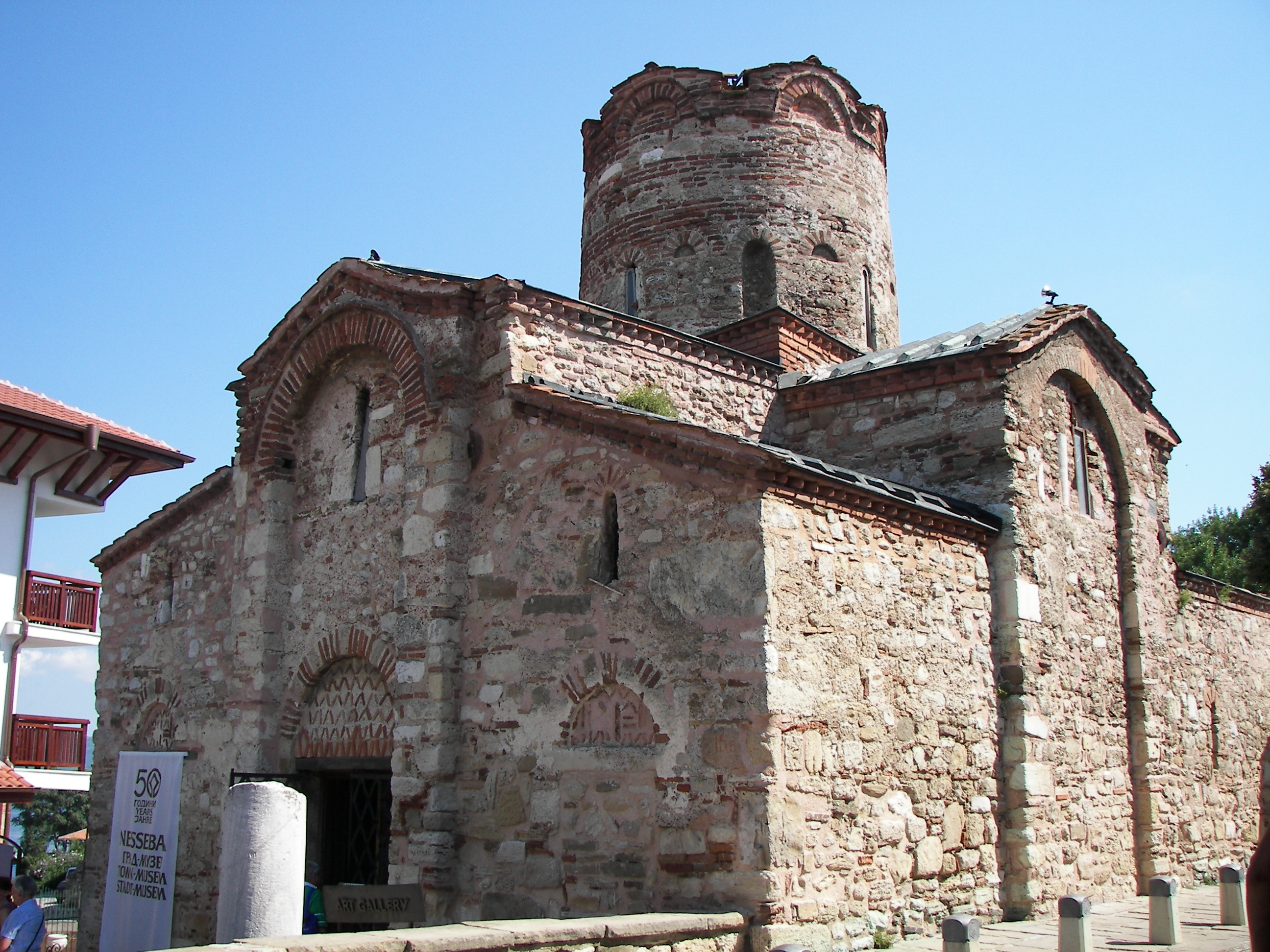 Nesebar